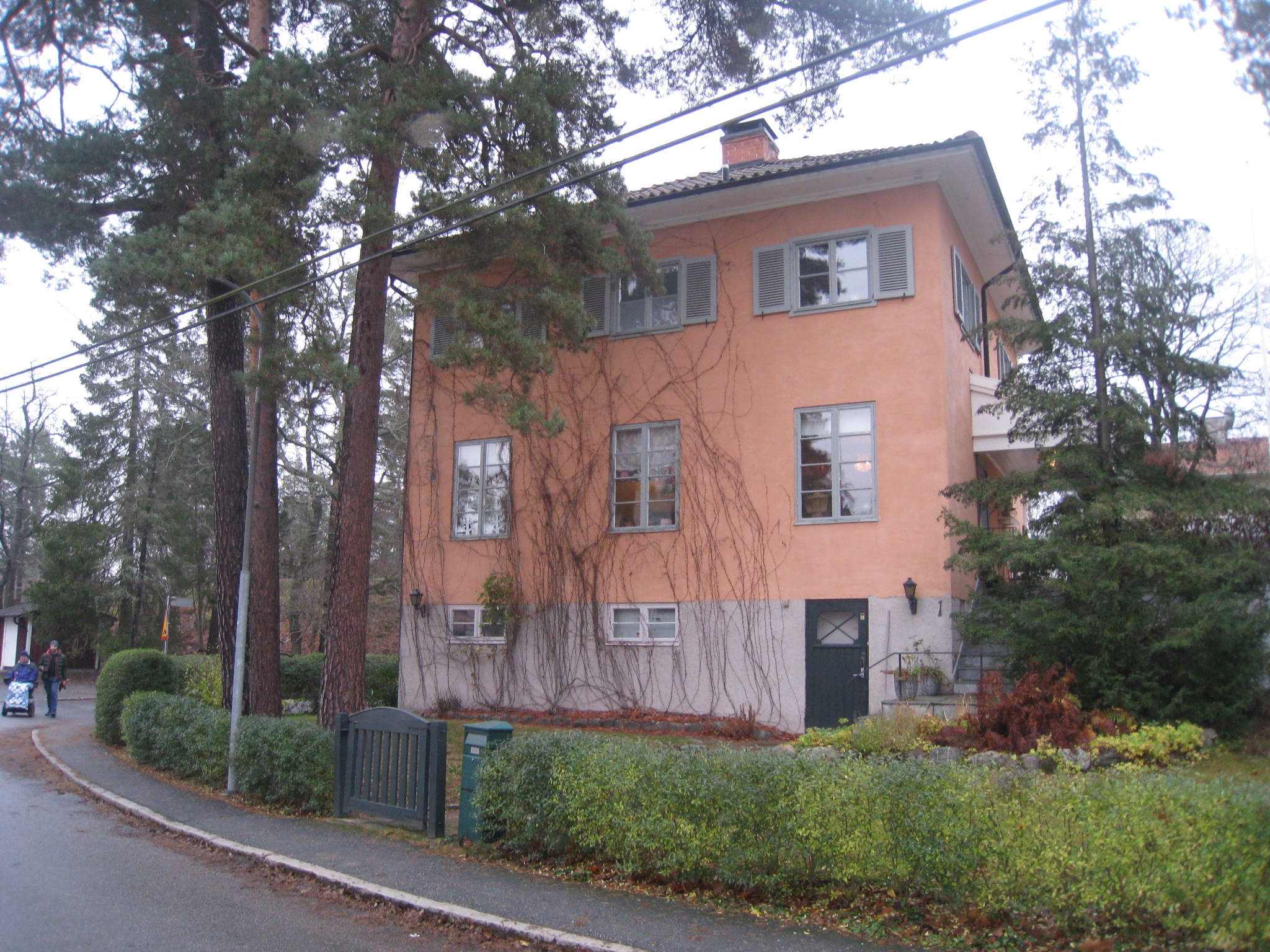 Villa på Vinghästvägen 1, Höglandet, Bromma, Stockholm.